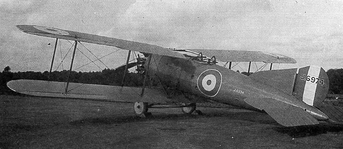 Short Springbok with fabric covered wing, Martlesham August 1923